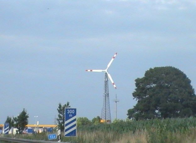 Wind turbine at Autobahn 4 rest area "Aachener Land Süd" in Germany. Turbine built 1993, demolished 2009.